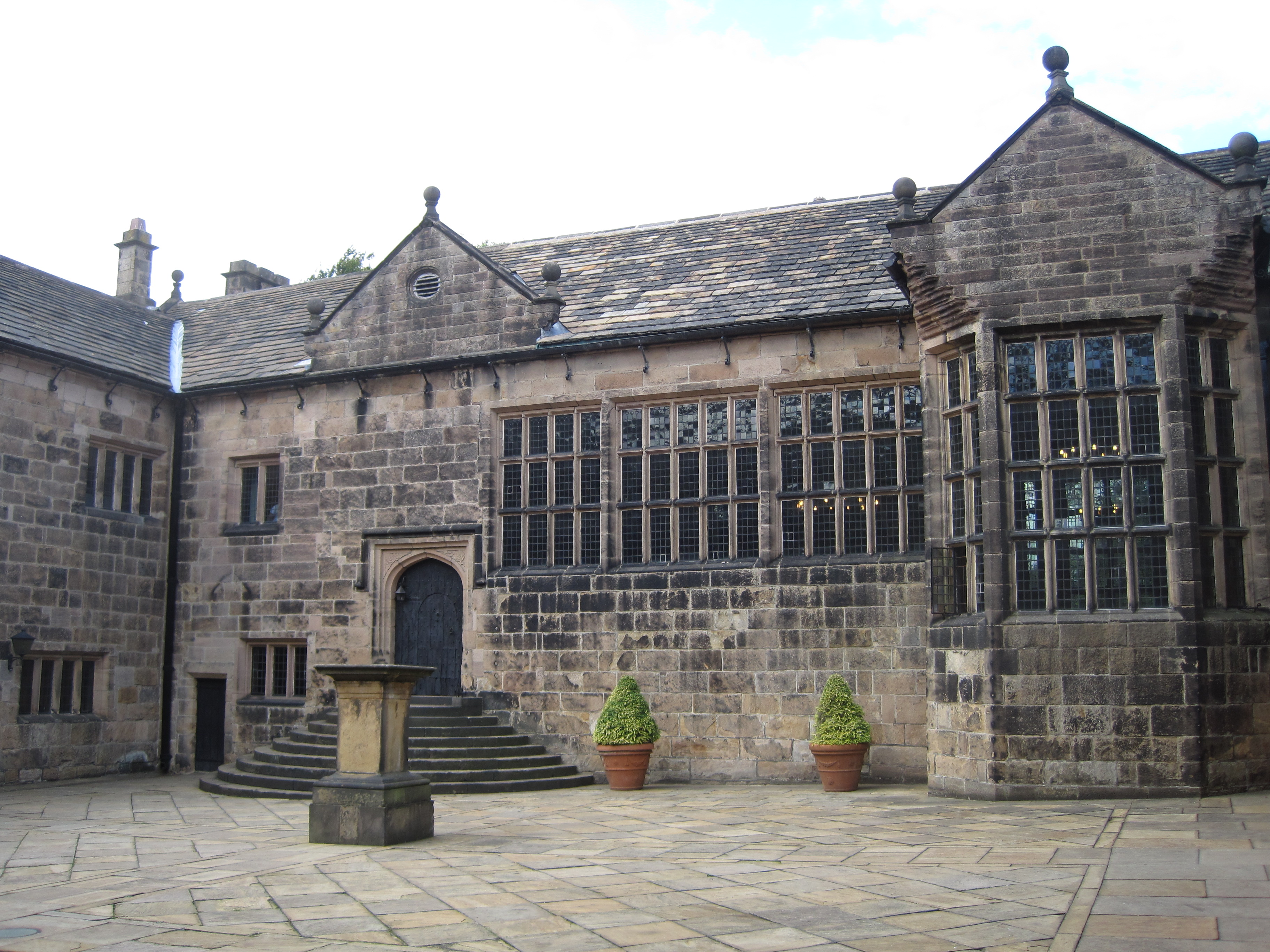 An inner court of Hoghton Tower, Lancashire.